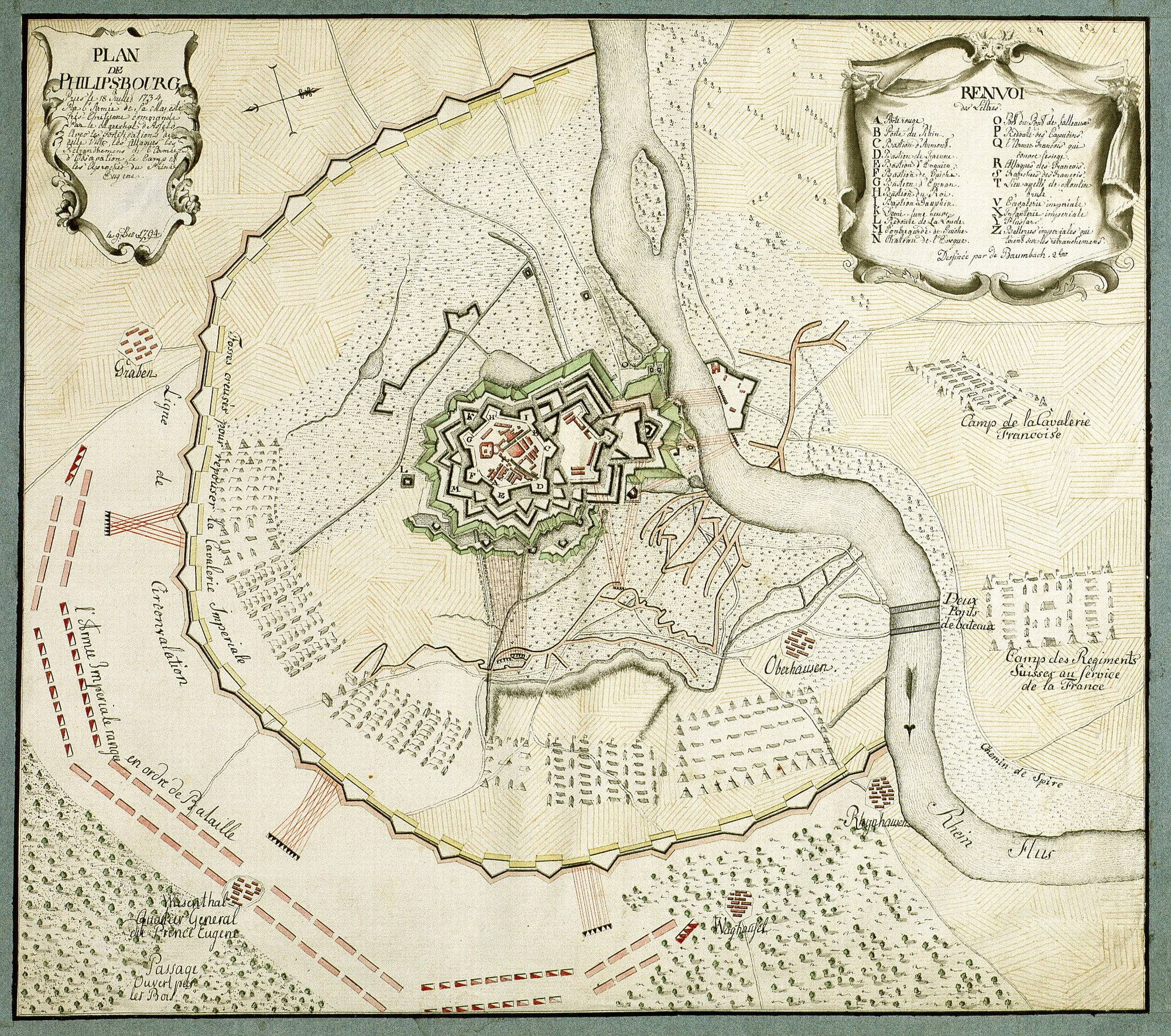 French plan of the 1734 Siege of Philippsburg.